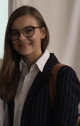 Deeva Anastasia at Inspiration Lab "I can!" (November 3, 2018) in Kharkiv, Ukraine